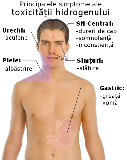 Main symptoms of hydrogen toxicity (RO version).